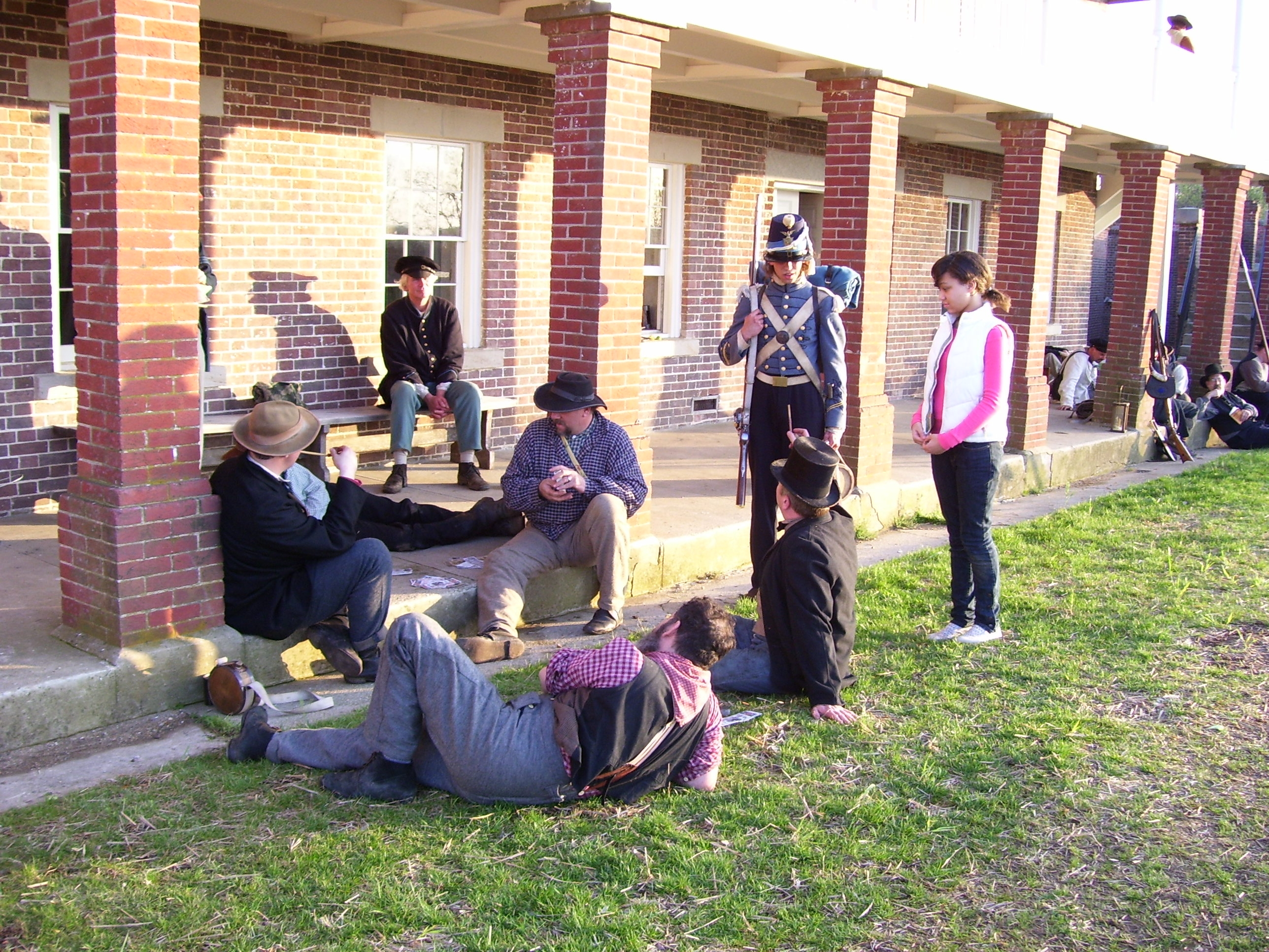 Historical re-enactment at Fort Washington Park, Maryland.